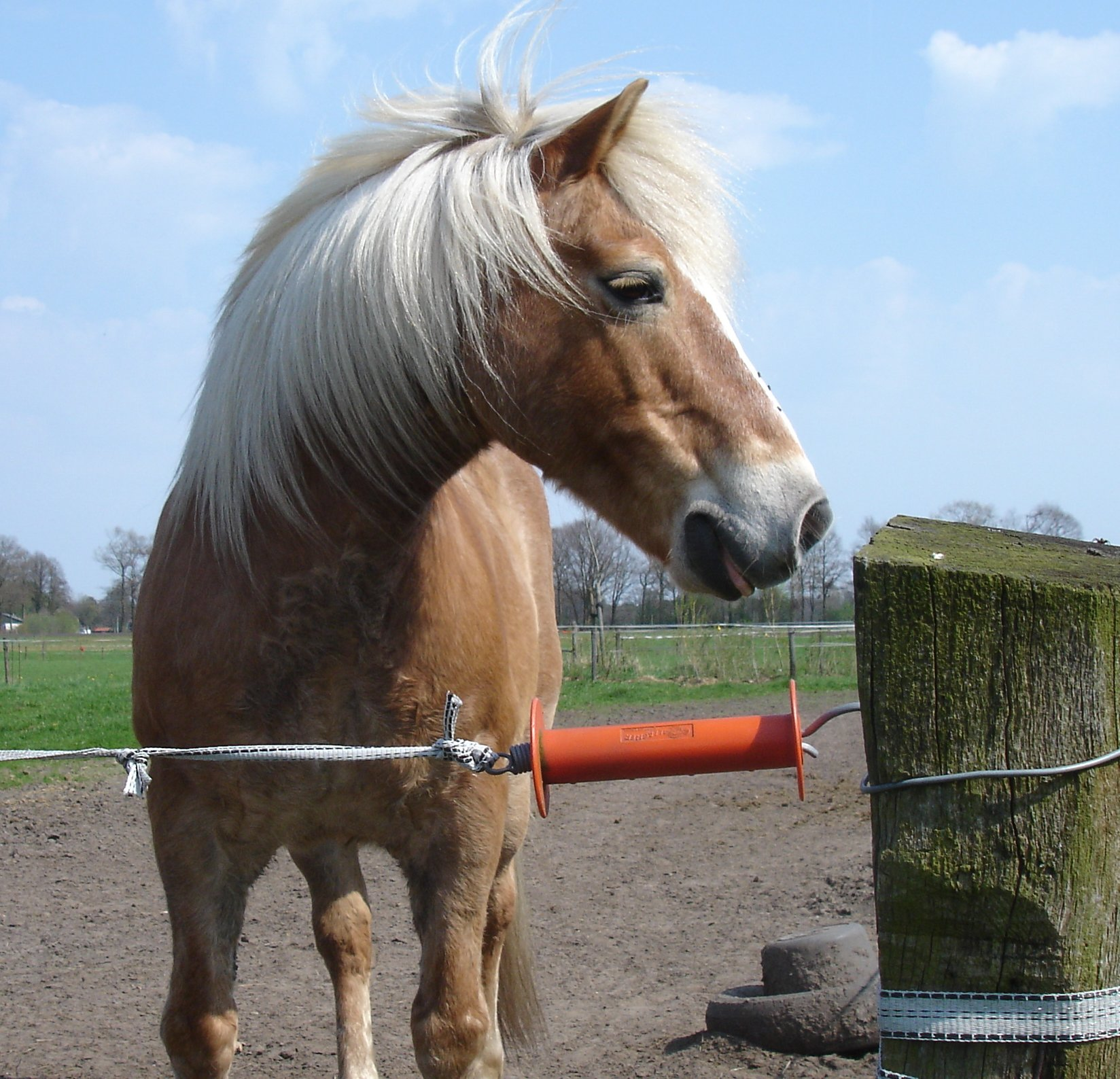 Isolated handle for electric fence